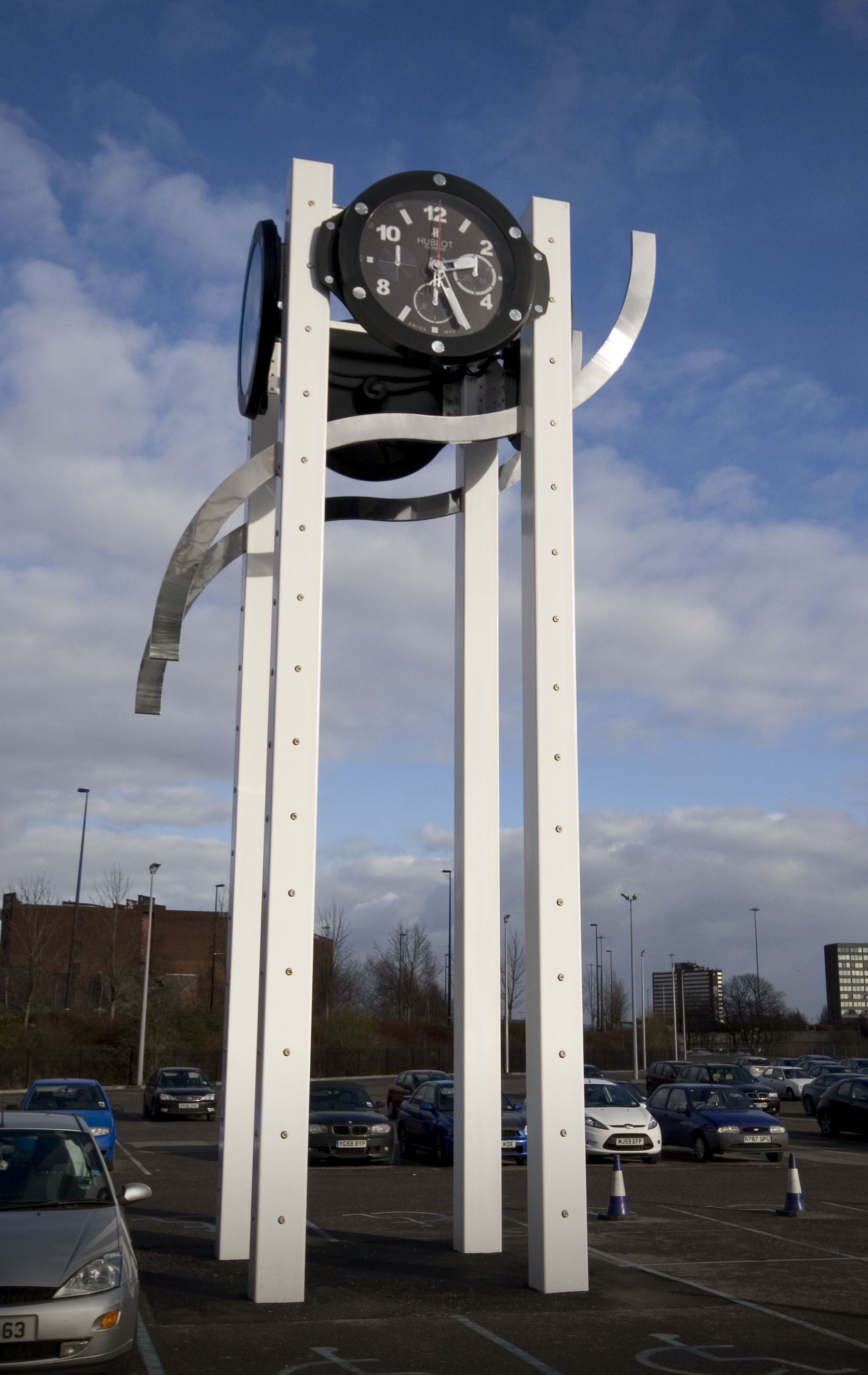 The clock in the car park opposite the main façade of Old Trafford.